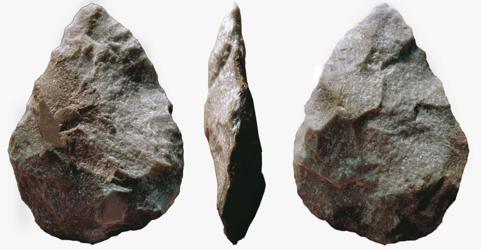 Cordate shaped hand axe (replica)